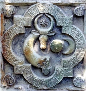 Coat of Arms of Moldavia dating from the XVIth century found at Probota monastery.